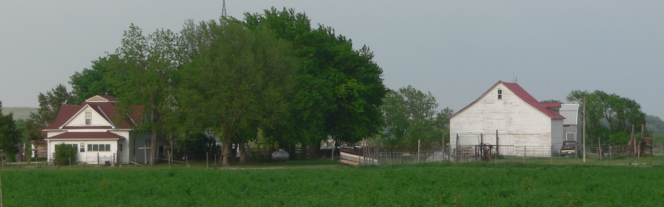 Thomas and Mary Williams homestead, located at southeastern edge of Taylor, Nebraska; seen from the southwest. At left is a frame house built in 1915-16; at right is the horse barn, built ca. 1900; behind and almost entirely obscured by the horse barn is a cattle barn, built in 1949.